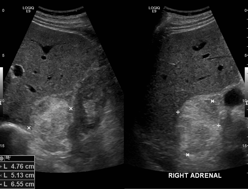 ?Myelolipoma in Ultrasound